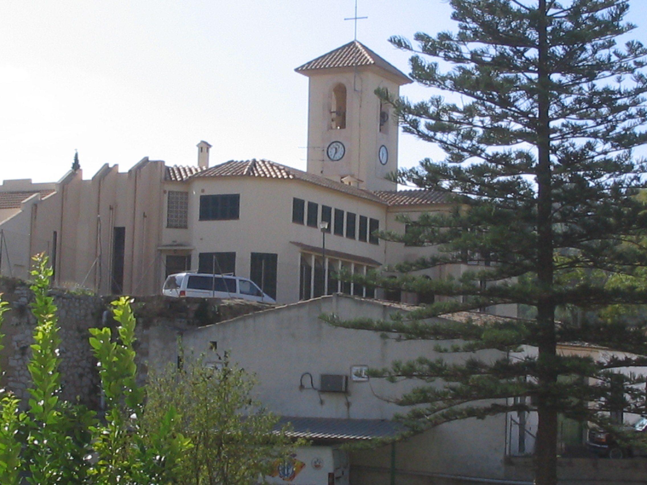 A spanish parish located at a small village called capdellà in Mallorca.